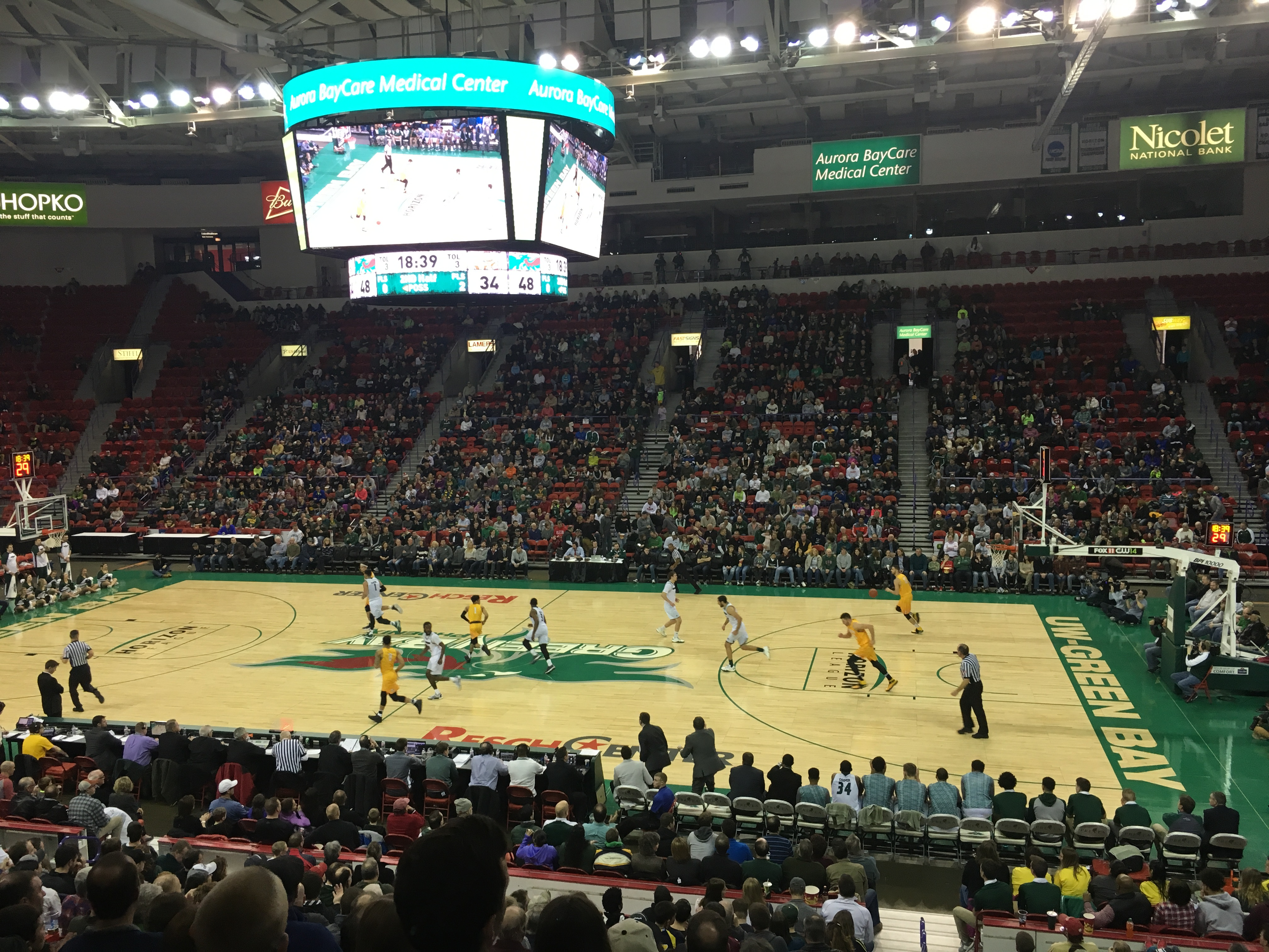 The Resch Center has served as the team's homecourt for the majority of its regular season games since the facility opened in 2002.